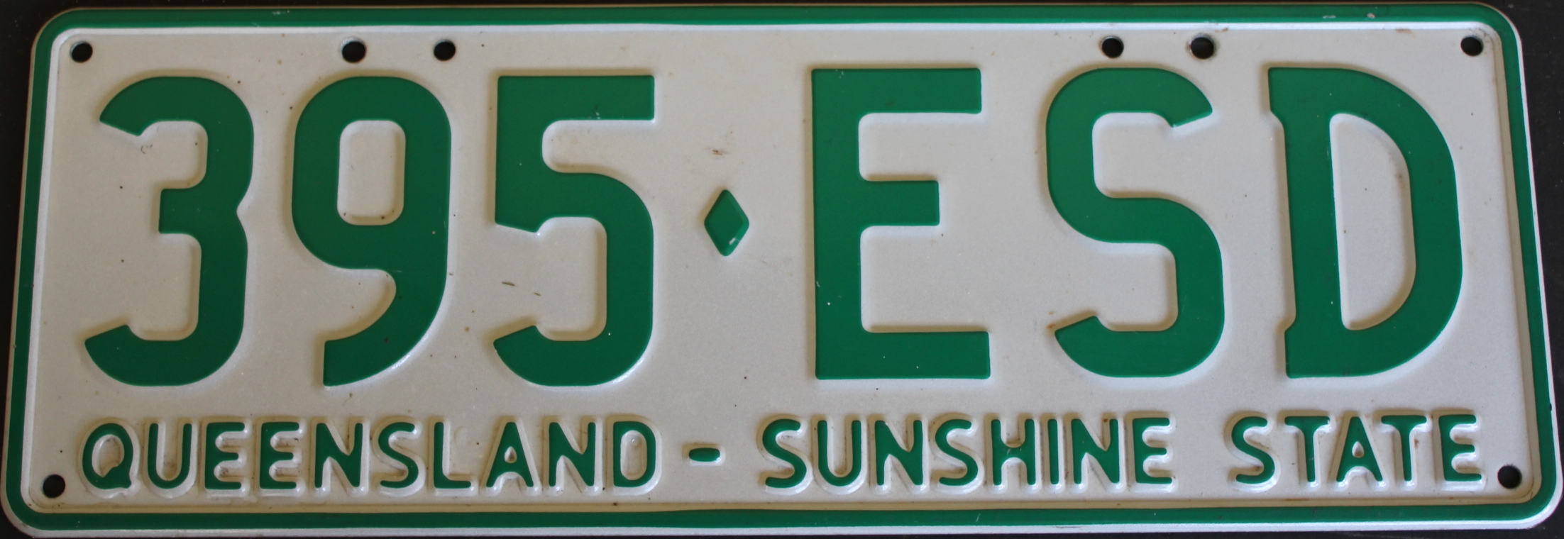 Queensland number plate in 1977-2001 colours. Removed from a vehicle that was de-registered.